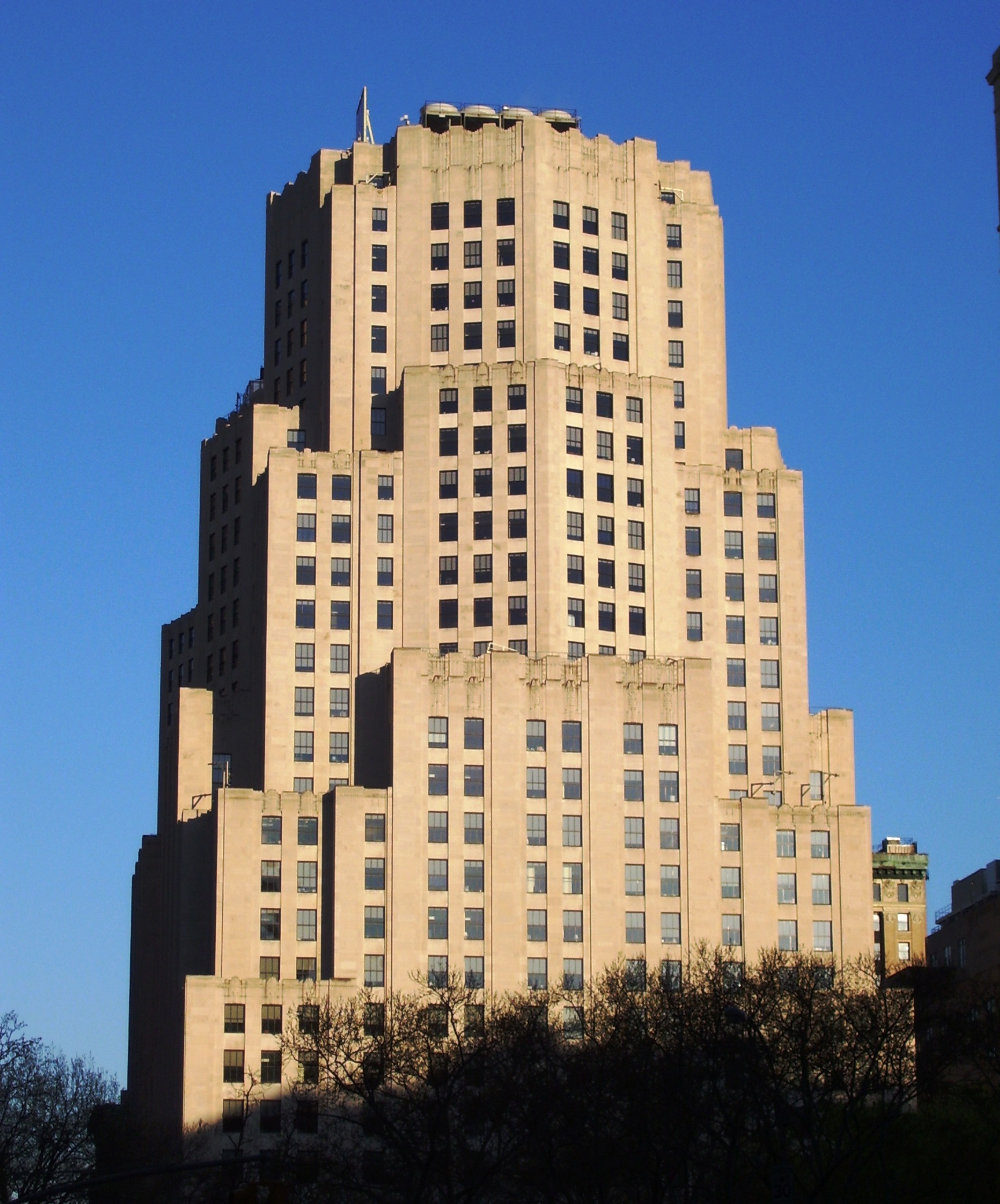 The Metropolitan Life North Building as seen from West 25th Street just west of Broadway on a spring evening.